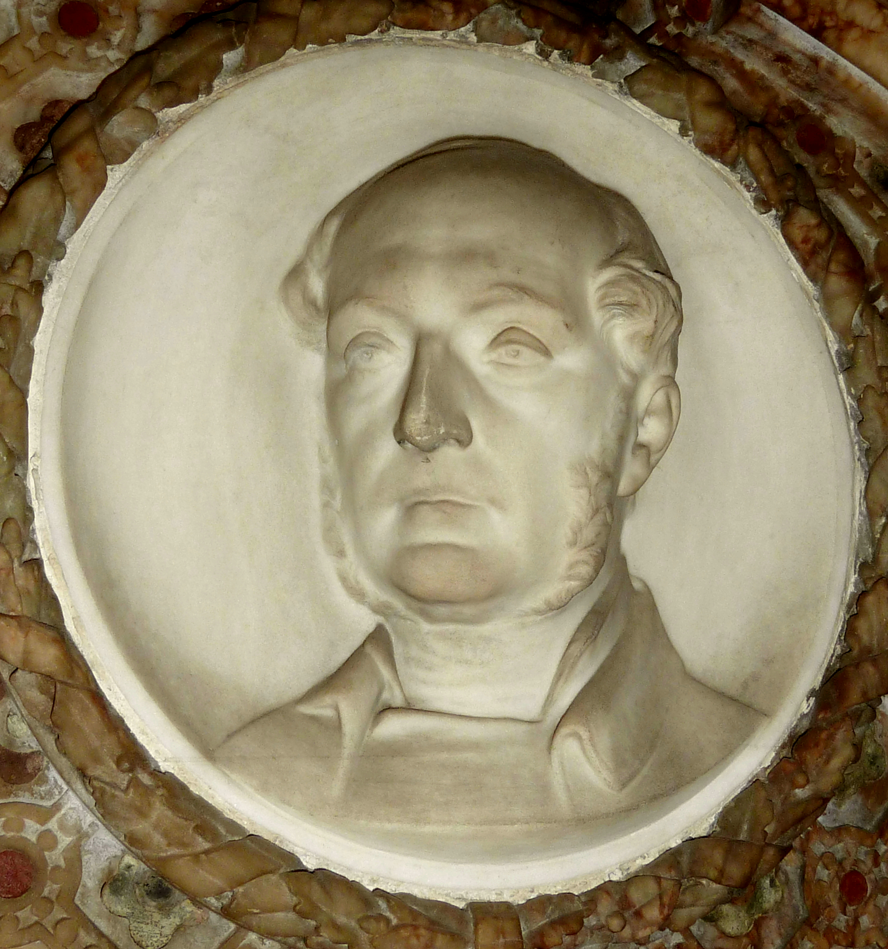 Monumental memorial tablet of 1866, dedicated to Reverend Canon Joshua Fawcett MA (1807-1864). He was vicar of Holy Trinity, Low Moor, previously known as Wibsey Chapel. The memorial hangs in the north aisle of the church. It was designed by architects Mallinson & Healey, and executed by architectural sculptors Mawer & Ingle of Leeds. Showing medallion portrait of Joshua Fawcett, most likely by Charles Mawer.